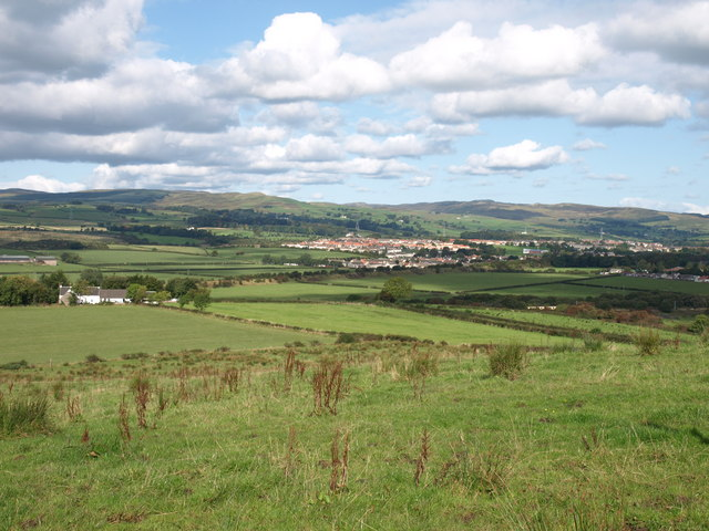 Garnock Valley Looking over the Garnock Valley towards Kilbirnie.